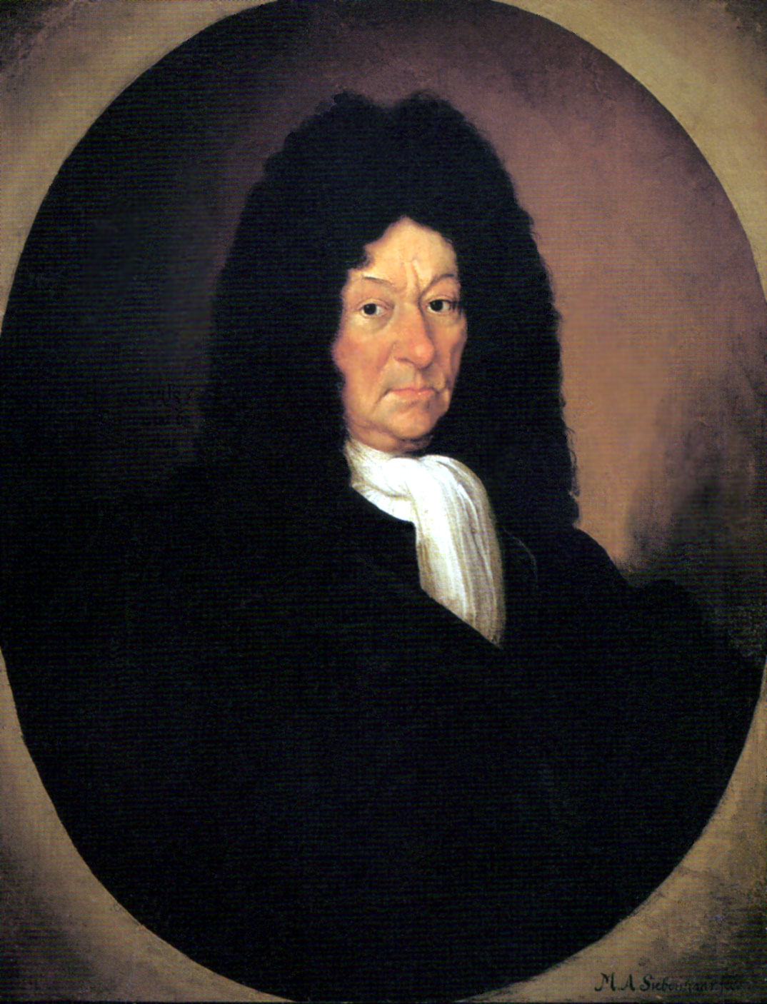 Gottfried Suevus the Younger (1652-1718) german jurist